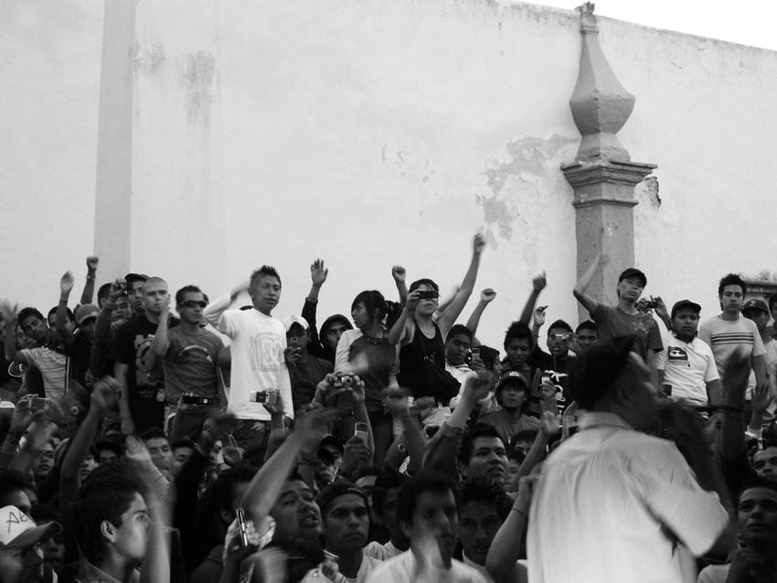 Bocafloja concert, Mexico 2009